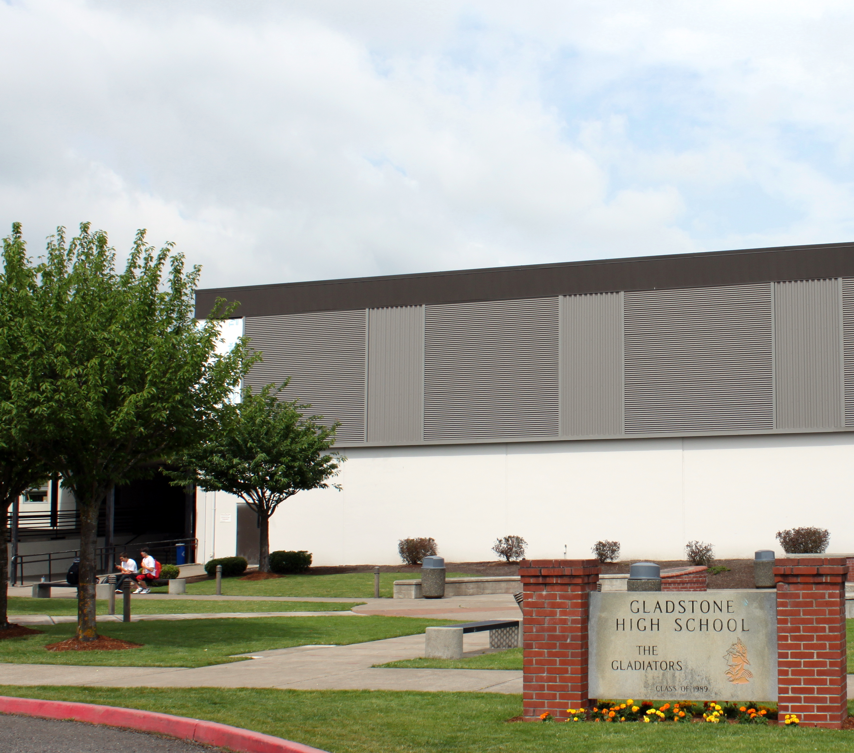 Gladstone High School (Oregon) in Gladstone, Oregon near Portland, Oregon.